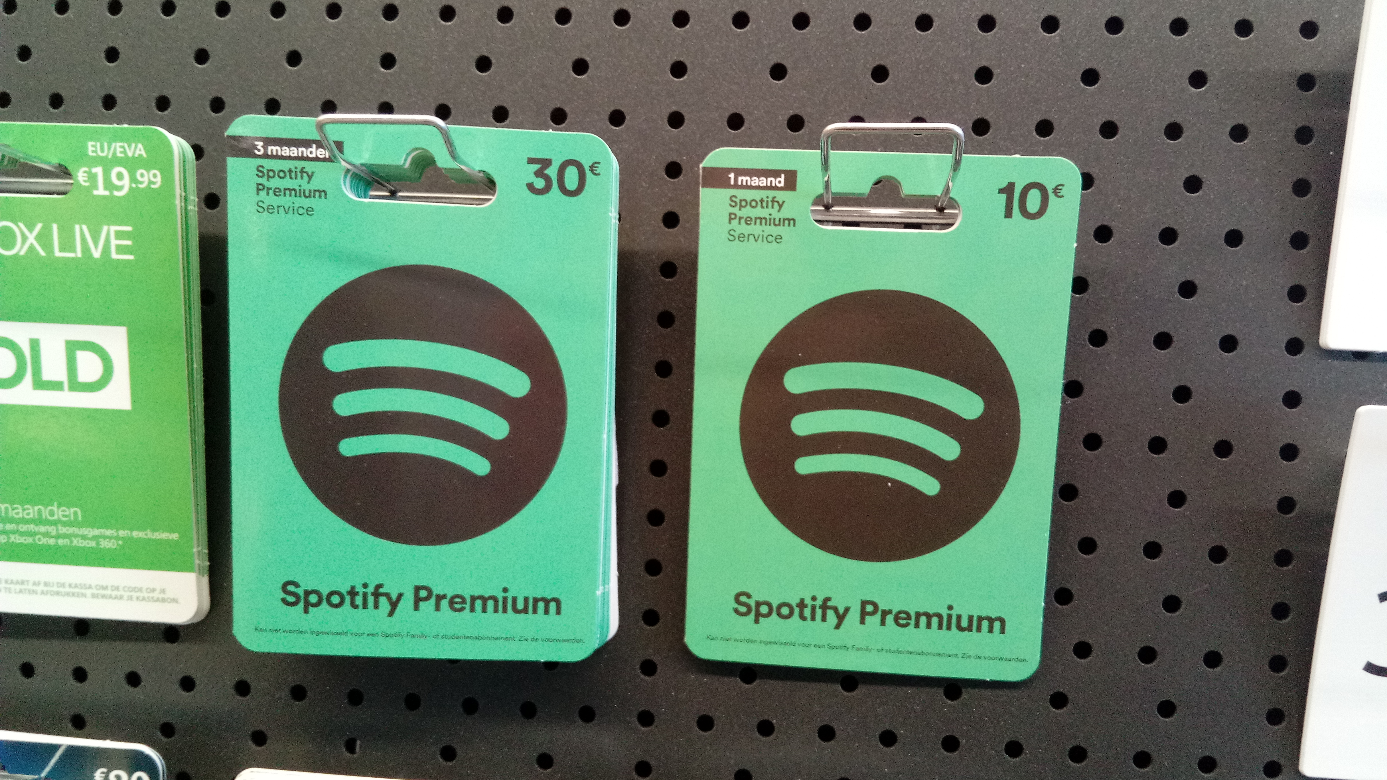 Stored-value cards for the Spotify Premium service for sale inside of a small local Aldi supermarket in the Groninger city of Winschoten, Oldambt.